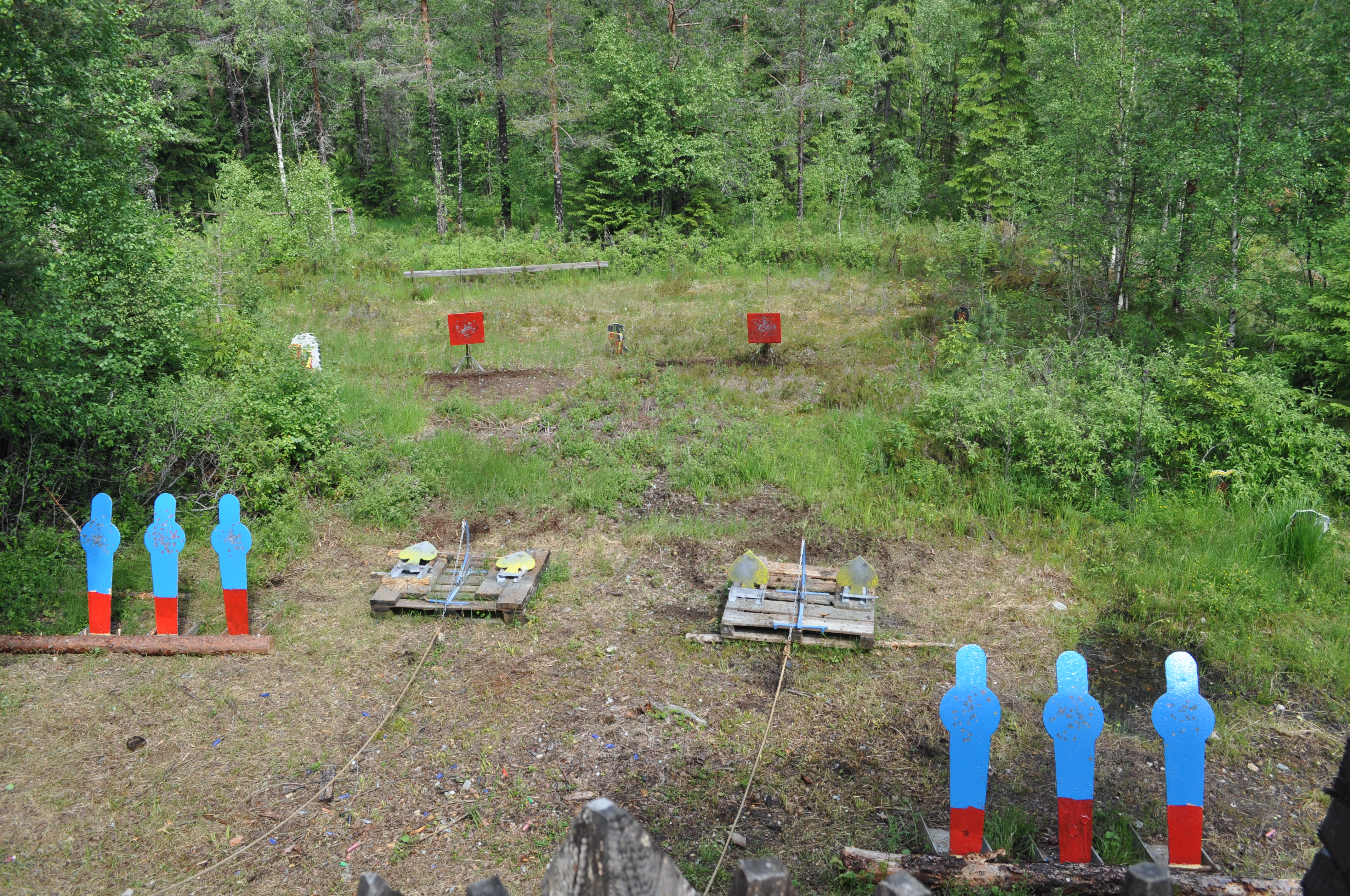 Steel targets set up for a CAS stage. The shooter fires different weapons for different targets, in this case using a rifle at the red targets at the back, and revolvers at the blue targets.